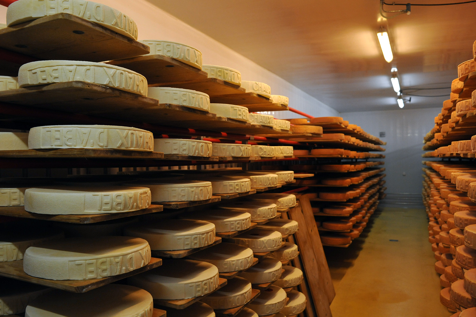 Cheese cellar of the cheese dairy Chaux-d'Abel in La Chaux-d'Abel; Berne, Switzerland. Fresh and matured Chaux-d'Abel.